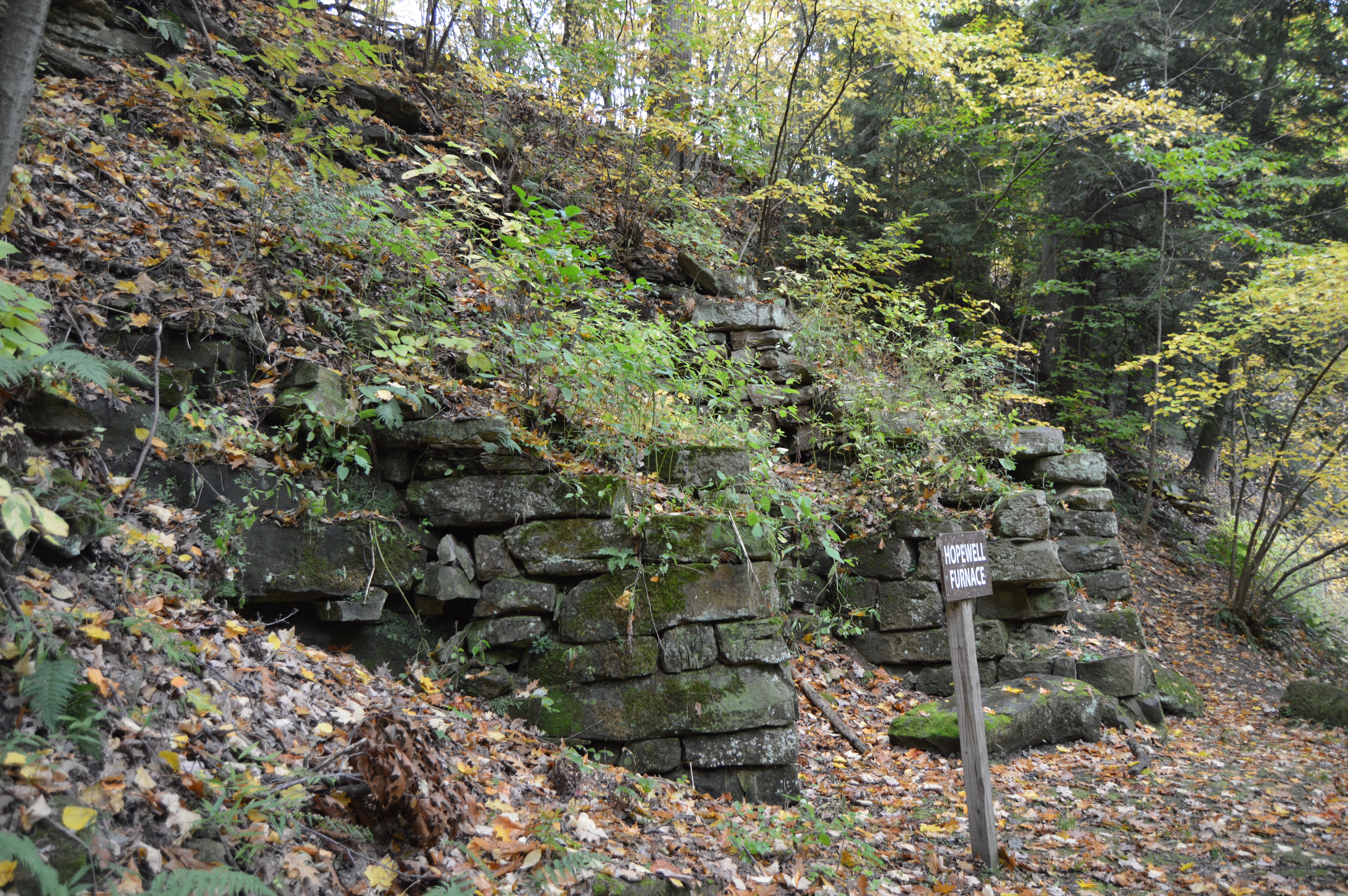 Overview of Hopewell Furnace, located along Yellow Creek east of the Lake Hamilton Dam in Poland Township, Mahoning County, Ohio, United States. Built in 1802, it was the first blast furnace west of the Appalachians and the first industrial operation in the Western Reserve. It is listed on the National Register of Historic Places as an archaeological site.